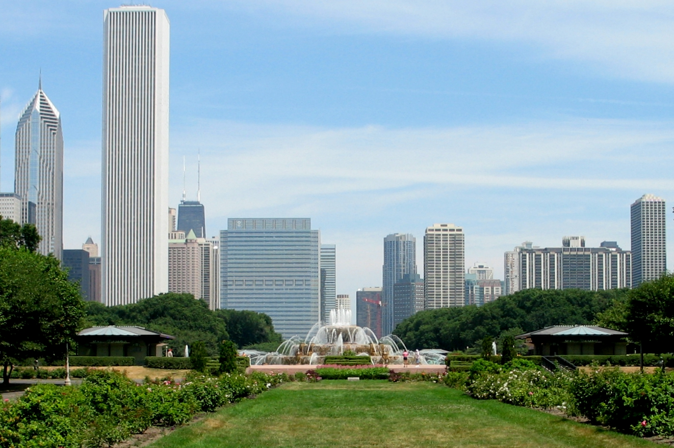 Buckingham Fountain in the foreground with one of the Prudential Buildings at the far left and the AON Center (the tallest building) in the background. The top of the John Hancock Center is also visible (the one with two antennae at the top). I took this photo 11 Jul 2005.